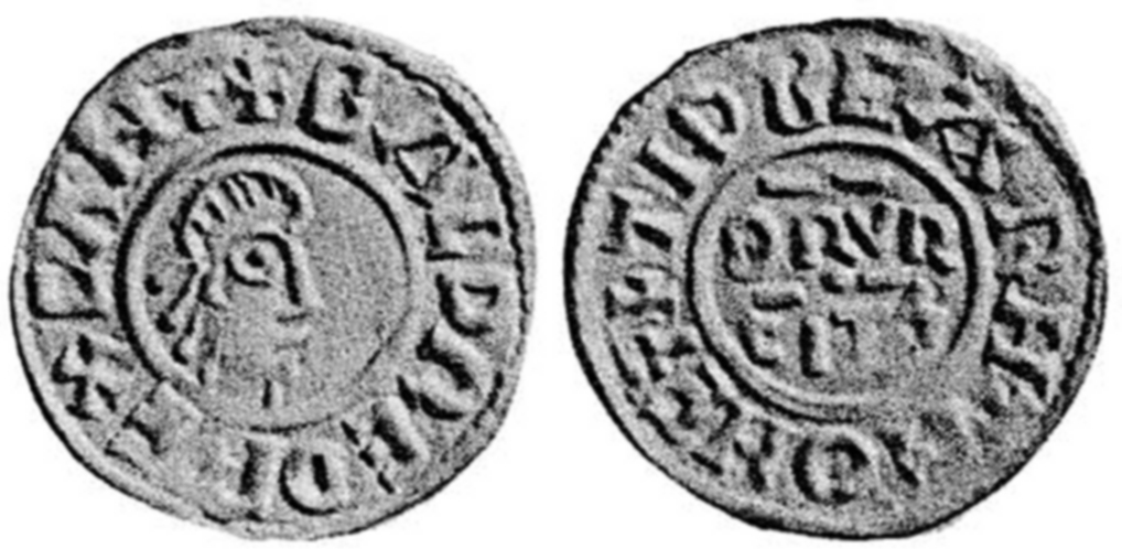 Coin of Baldred, King of Kent (c. 821–c. 825), minted in Canterbury by Tidbeorht, EMC number 1001.0434